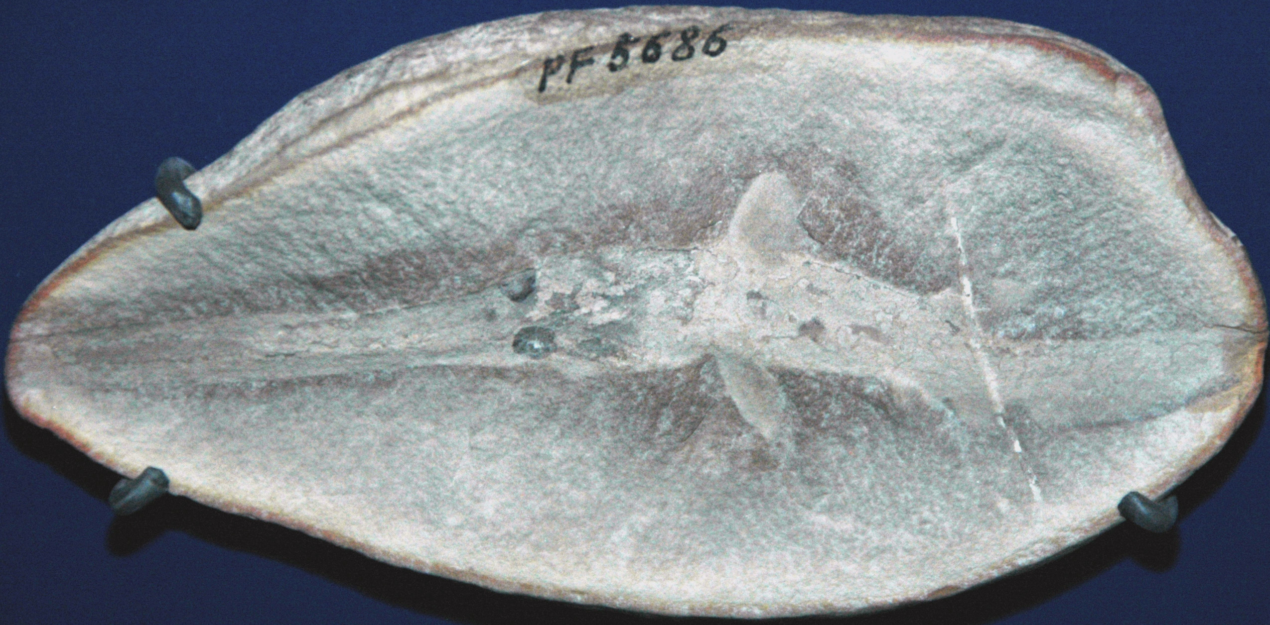 Bandringa rayi Zangerl, 1969 fossil shark from the Pennsylvanian of Illinois, USA (public display, FMNH PF 5686, Field Museum of Natural History, Chicago, Illinois, USA) (~10.7 cm across). One of the most remarkable soft-bodied fossil deposits (lagerstätten) on Earth is the Pennsylvanian-aged Mazon Creek Lagerstätte near Chicago, Illinois. In the Mazon Creek area, the Francis Creek Shale consists of concretionary gray shales. The Francis Creek concretions are composed of argillaceous ironstone, and can be fossiliferous or nonfossiliferous. The fossiliferous concretions contain land plants and terrestrial & marine animals, including nonmineralizing organisms. This bizarre-looking fossil shark is the holotype specimen of Bandringa rayi. Its size and lack of developed cartilaginous skeletal structures indicate that this is a juvenile shark. It has an extremely elongated snout, well-preserved eyespots, and a set of very small teeth arranged in a V-pattern (discernible as two light-grayish lines extending in the 2-o’clock and 3:30 directions from the lower eyespot). This rare species has been reported from the Mazon Creek deposit of Illinois and from Cannelton, Pennsylvania, USA. Classification: Animalia, Chordata, Vertebrata, Chondrichthyes, Elasmobranchii, Eusealchii, Ctenacanthiformes, Ctenacanthoidea, Bandringidae Stratigraphy: Mazon Creek Lagerstätte, Francis Creek Shale Member, Carbondale Formation, Desmoinesian Stage (= Westphalian D), upper Middle Pennsylvanian Locality: coal mine dump pile near Essex, northern Illinois, USA